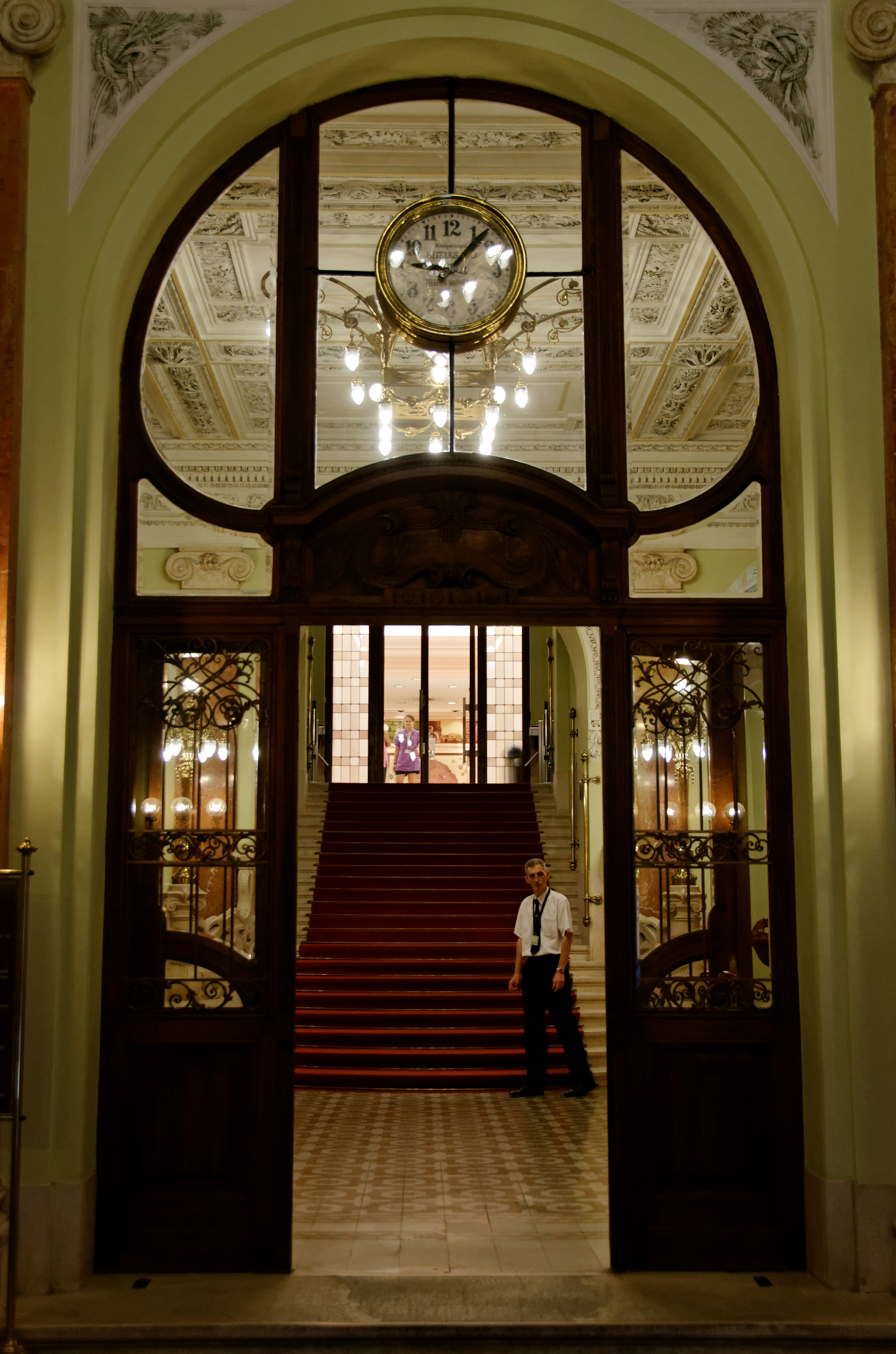 Entrance of Magyar Nemzeti Bank, Budapest